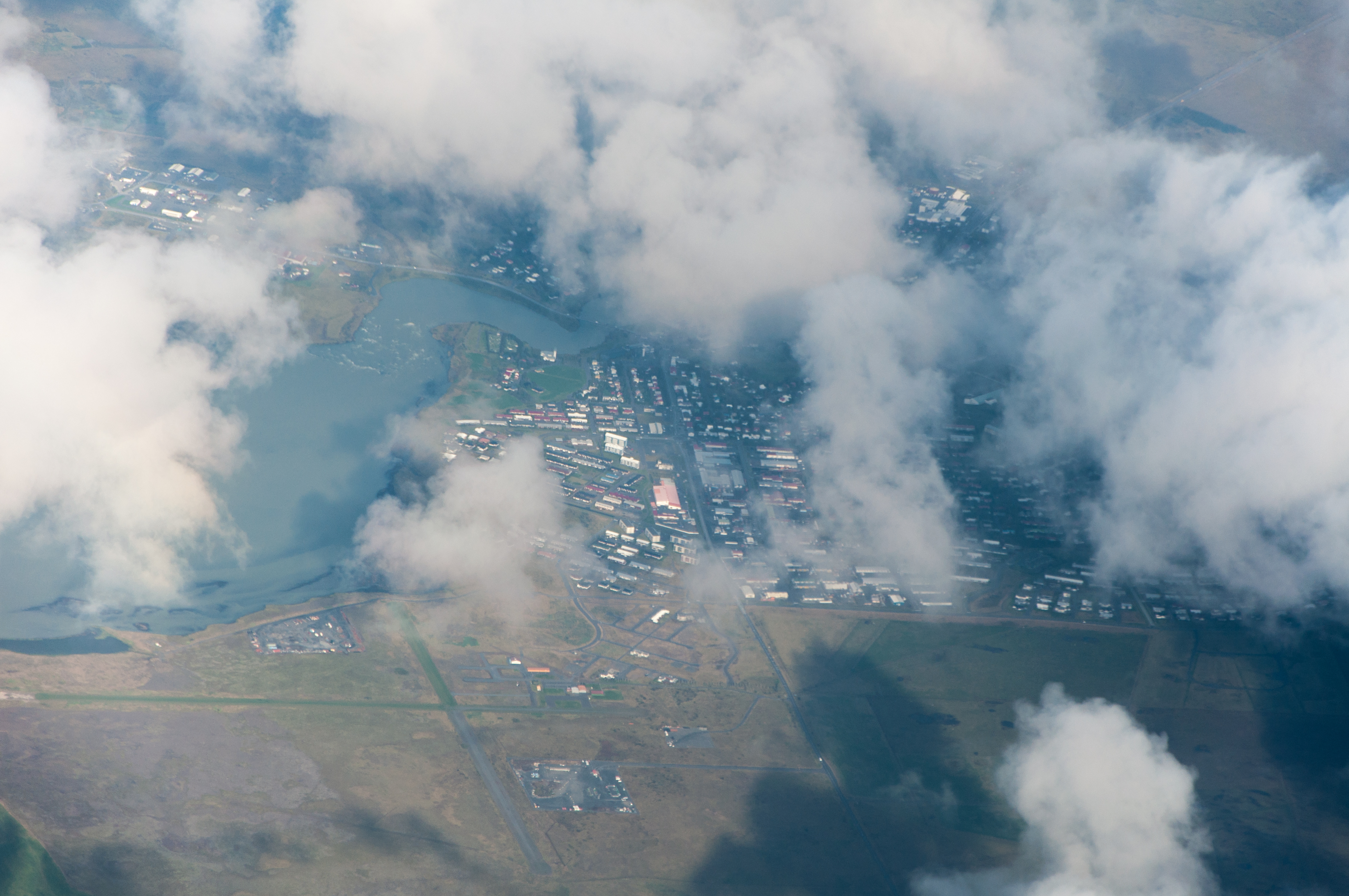 Iceland, aerial view of Selfoss from 5200 m asl